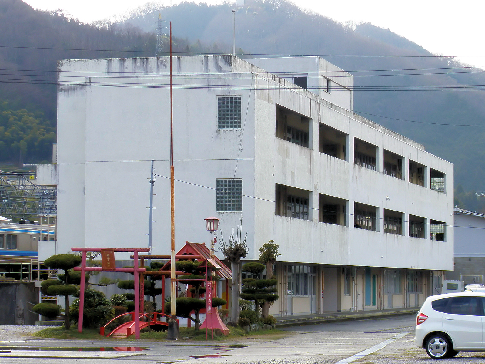 Niimi train district